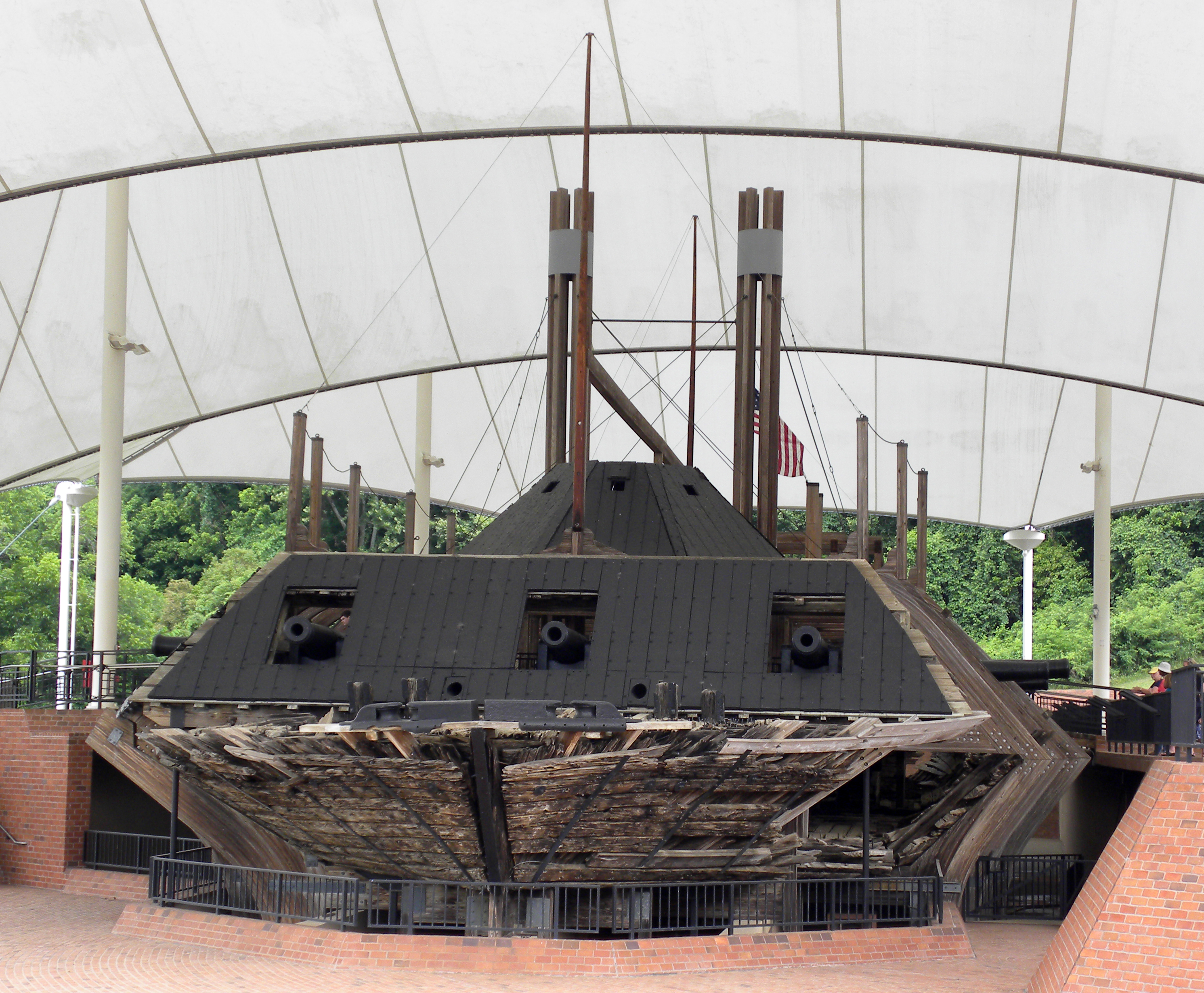 USS Cairo (1861) at Vicksburg, Mississippi.